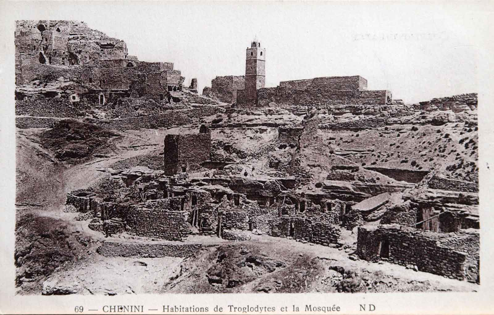 Old picture about Chenini in Tunisia